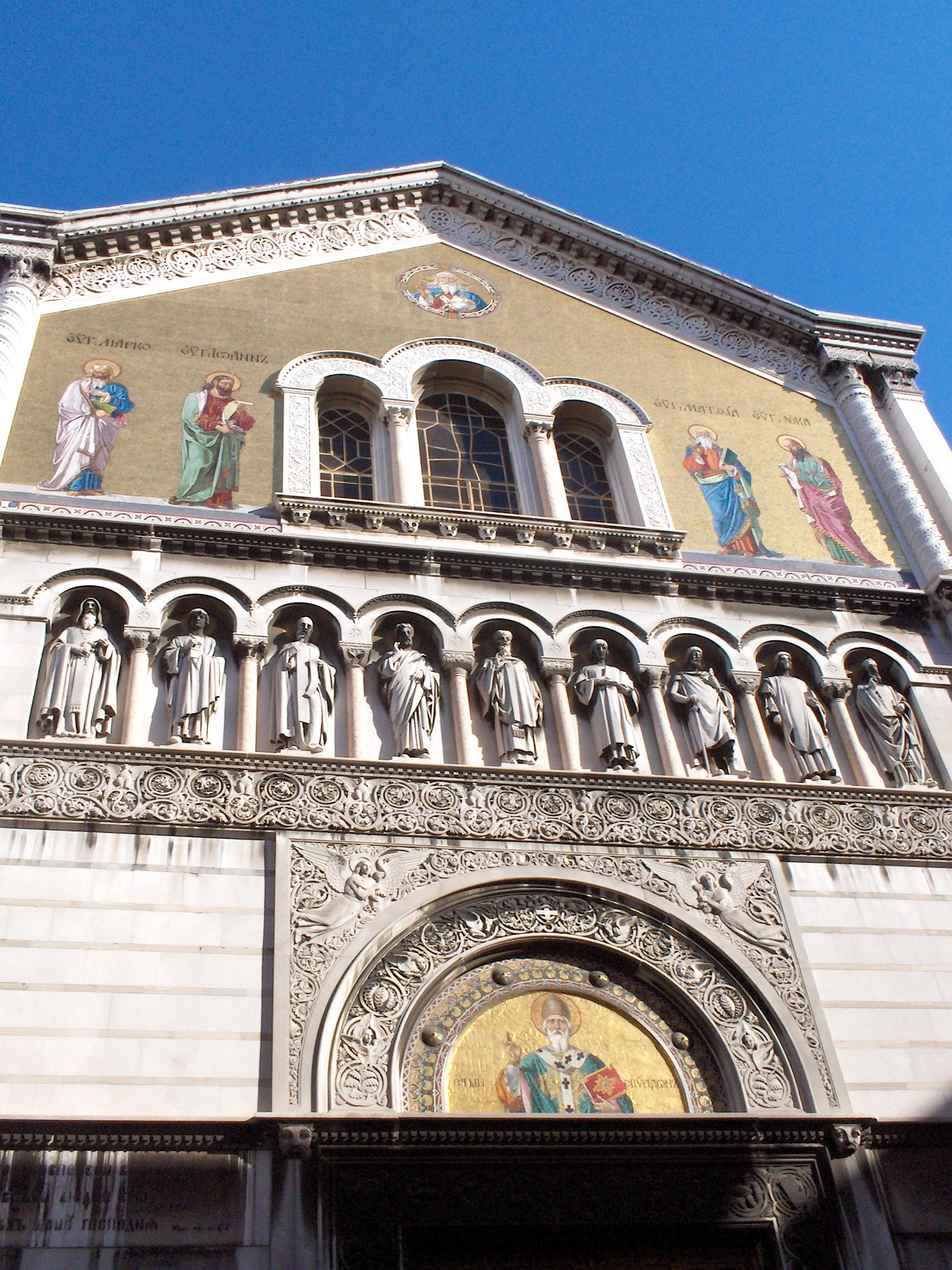 Serbian-orthodox church of San Spiridione, Trieste, Italy.